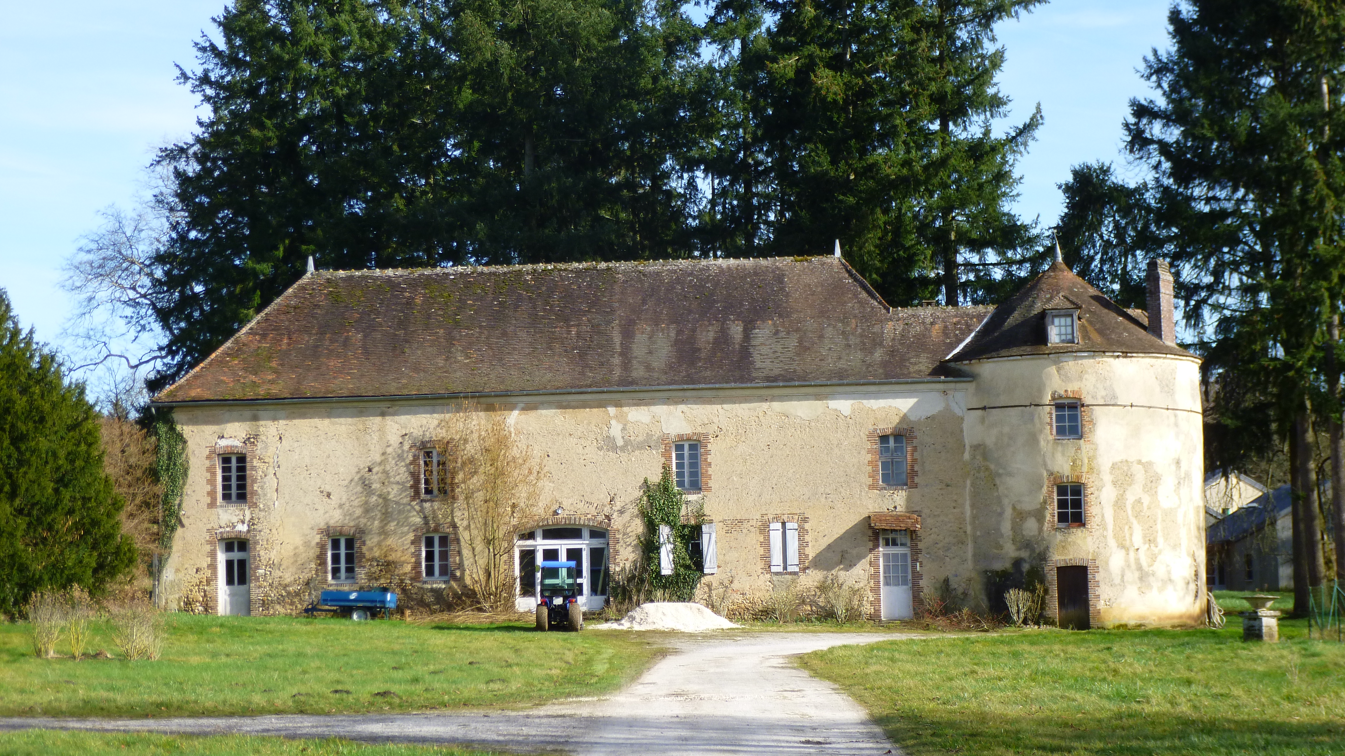 Tannerre-en-Puisaye, Yonne, Burgundy, France. In the park of the castle that was destroyed in a fire in 1978.